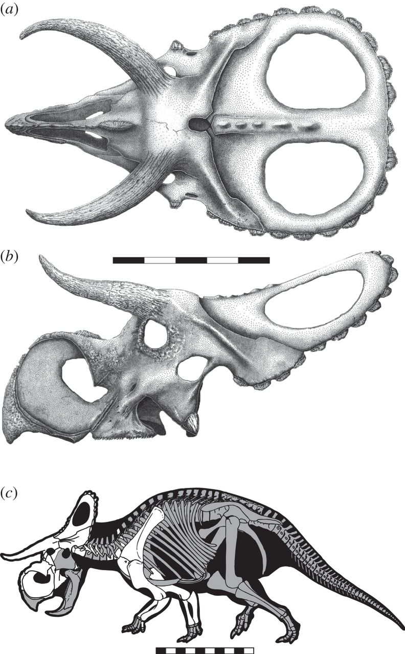 Nasutoceratops titusi, n. gen et. sp., skull reconstruction in (a) dorsal and (b) lateral views. (c) Skeletal reconstruction with elements presently known in white. (a,b) Scale bars, 50 cm and (c) 1 m.